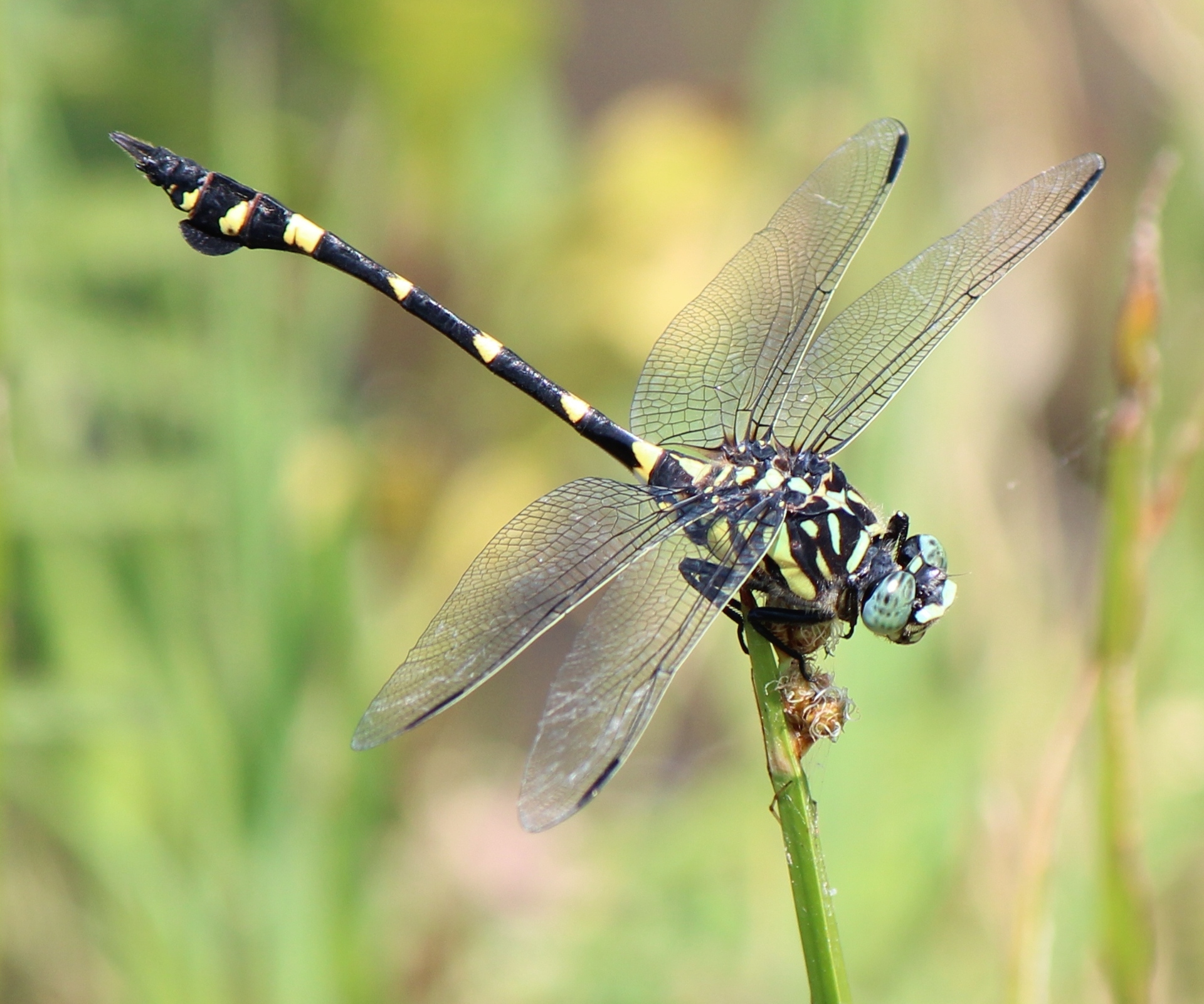 Ictinogomphus pertinax in Japan